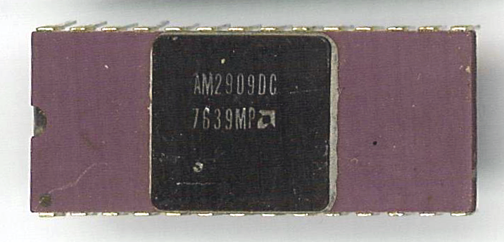 IC photo